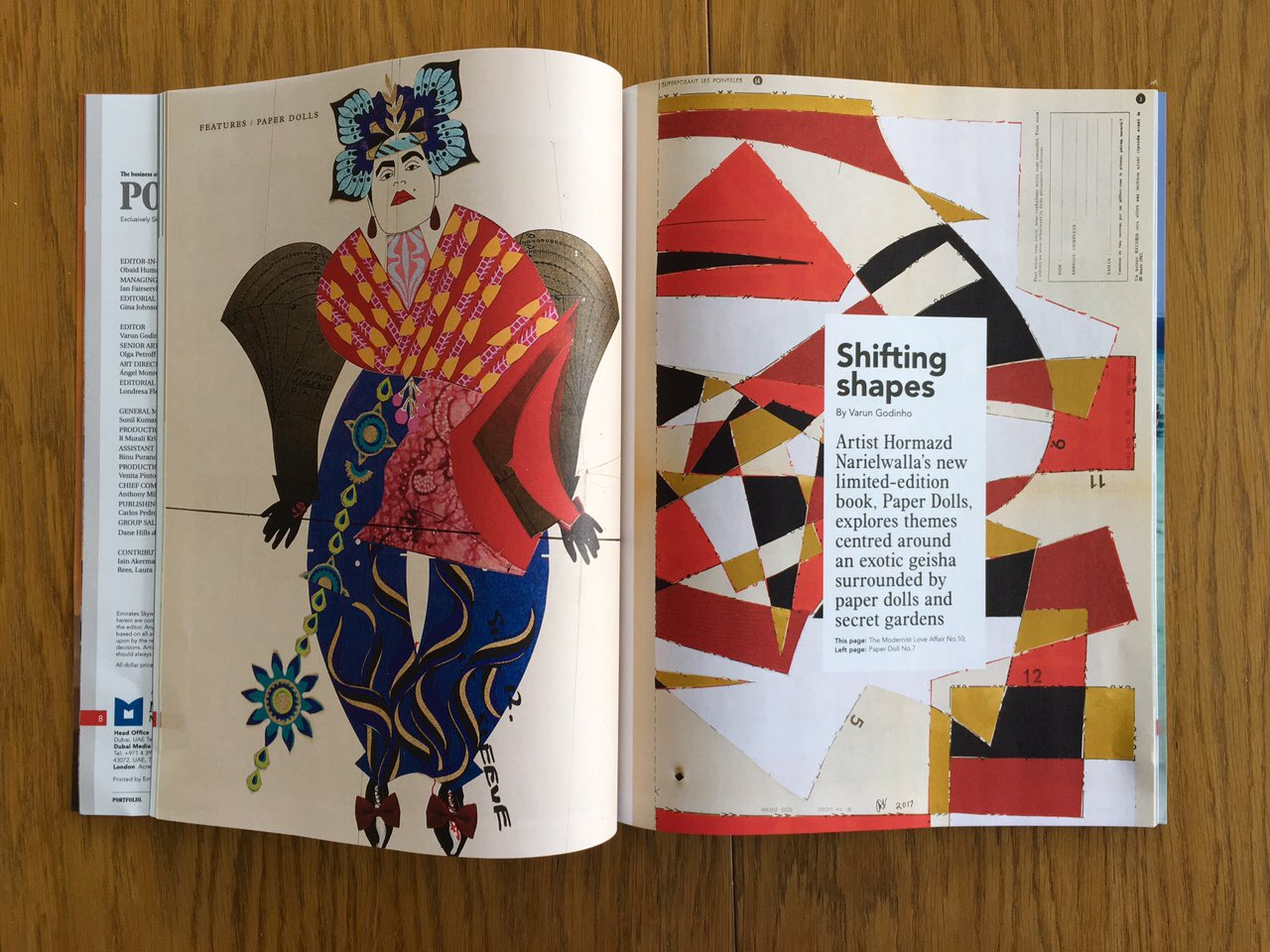 Hormazd’ work Paper Dolls is featured in Emirates Airlines flight magazine of May 2019